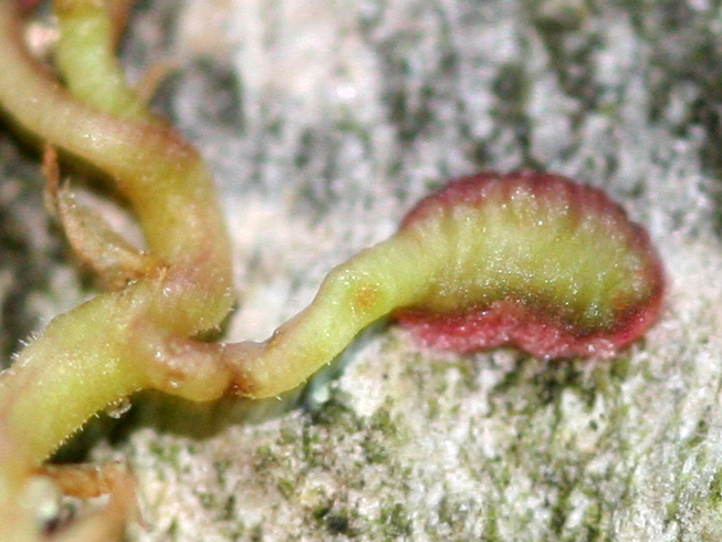 Parthenocissus quinquefolia (L.) Planch. - Virginia creeper - in the Town Skaneateles, Onondaga County, New York